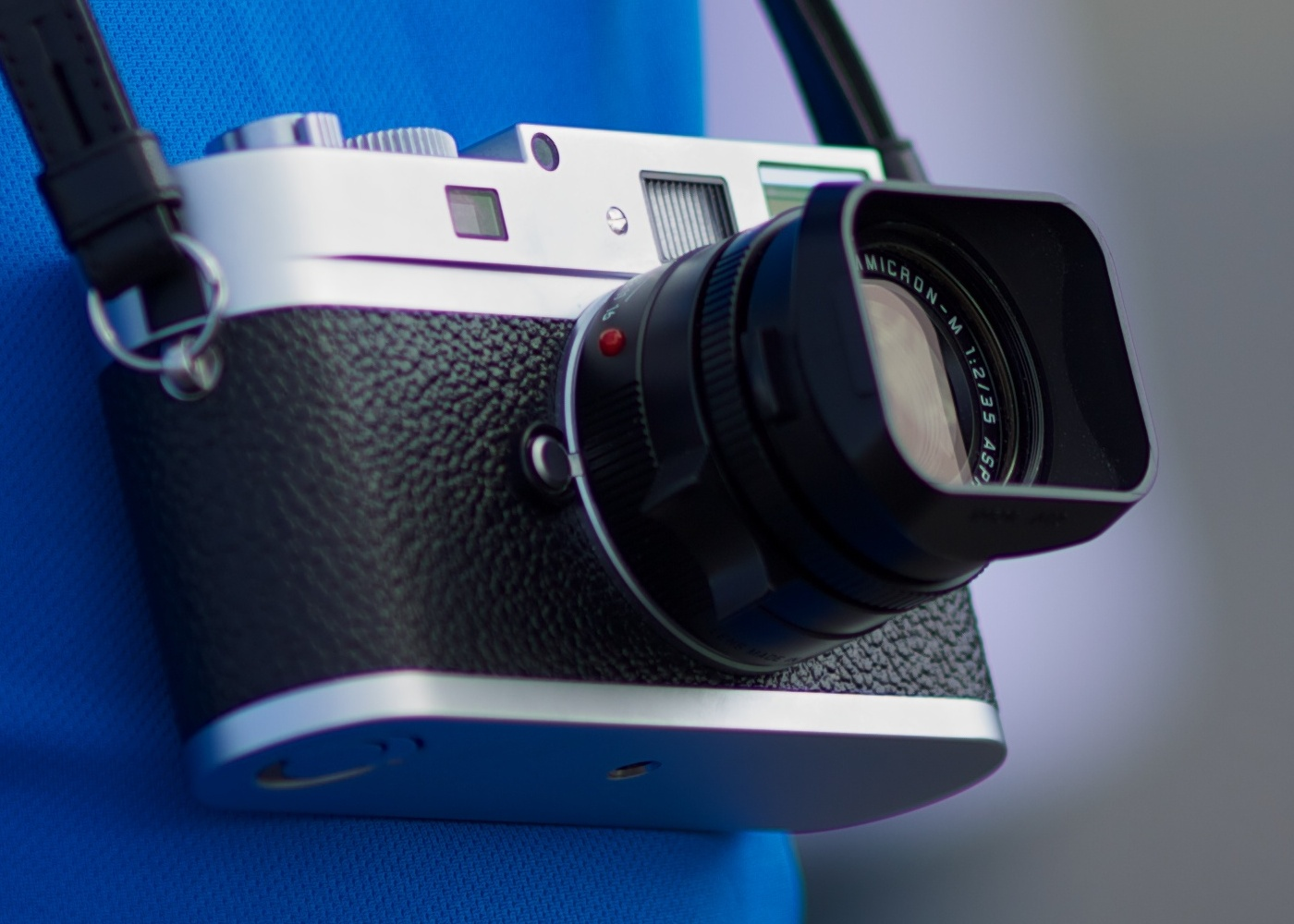 Leica M9-P digital ragefinder camera, silver finish.